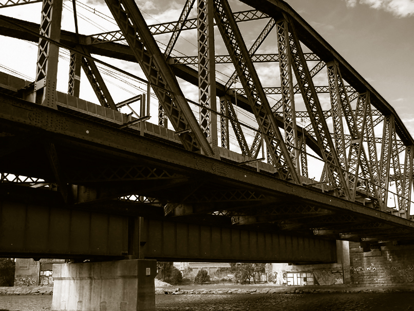 Between Footscray and South Kensington stations. The truss bridge replaced an older one, the girder bridge behind is from the 1970s.